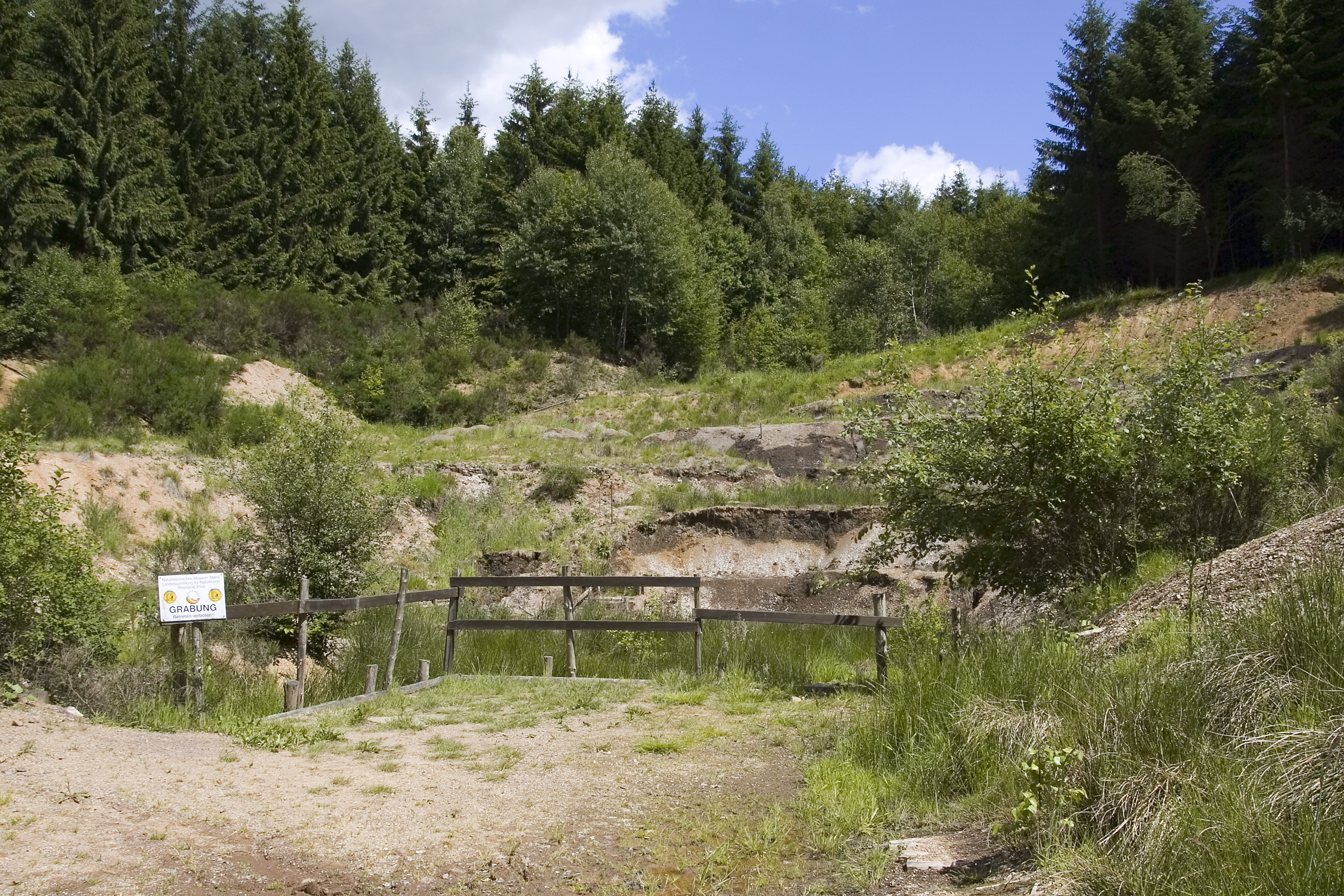 Eckfelder Maar, near Eckfeld, Eifel